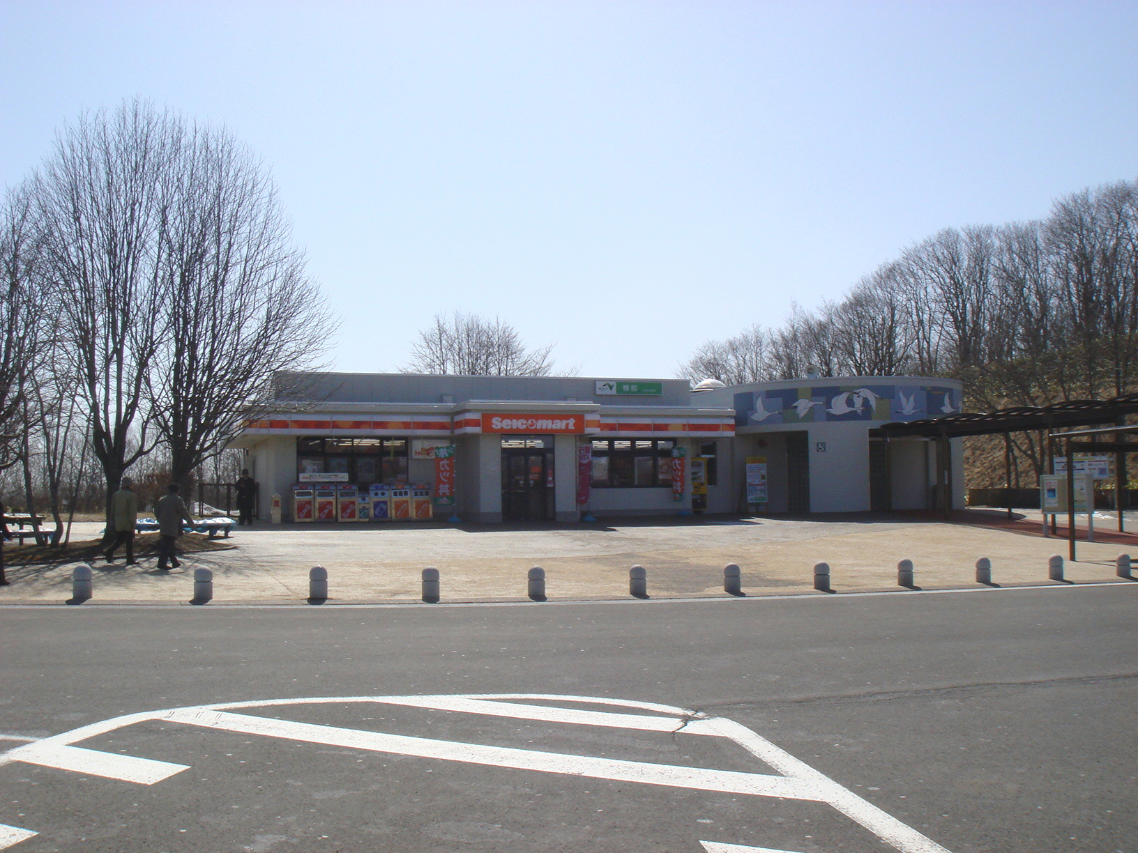 Hokkaidō Expressway Tarumae Service Area for Hakodate